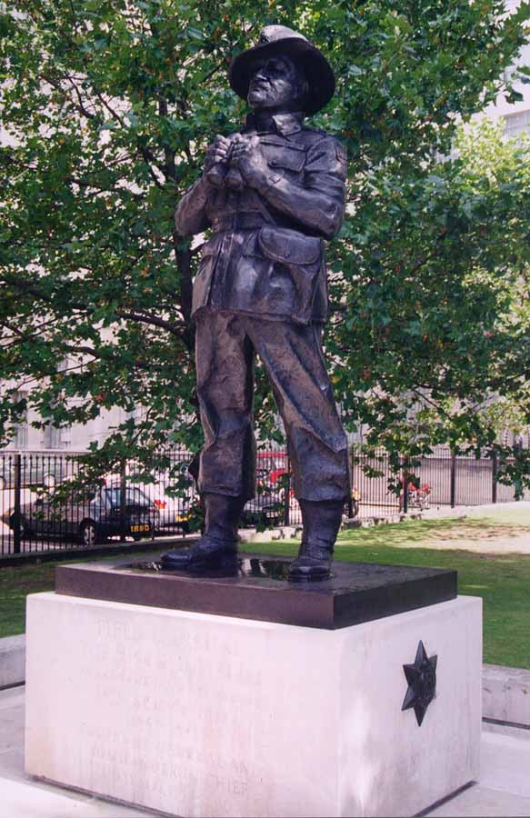 Field Marshal William Slim's statue outside Whitehall in the United Kingdom.